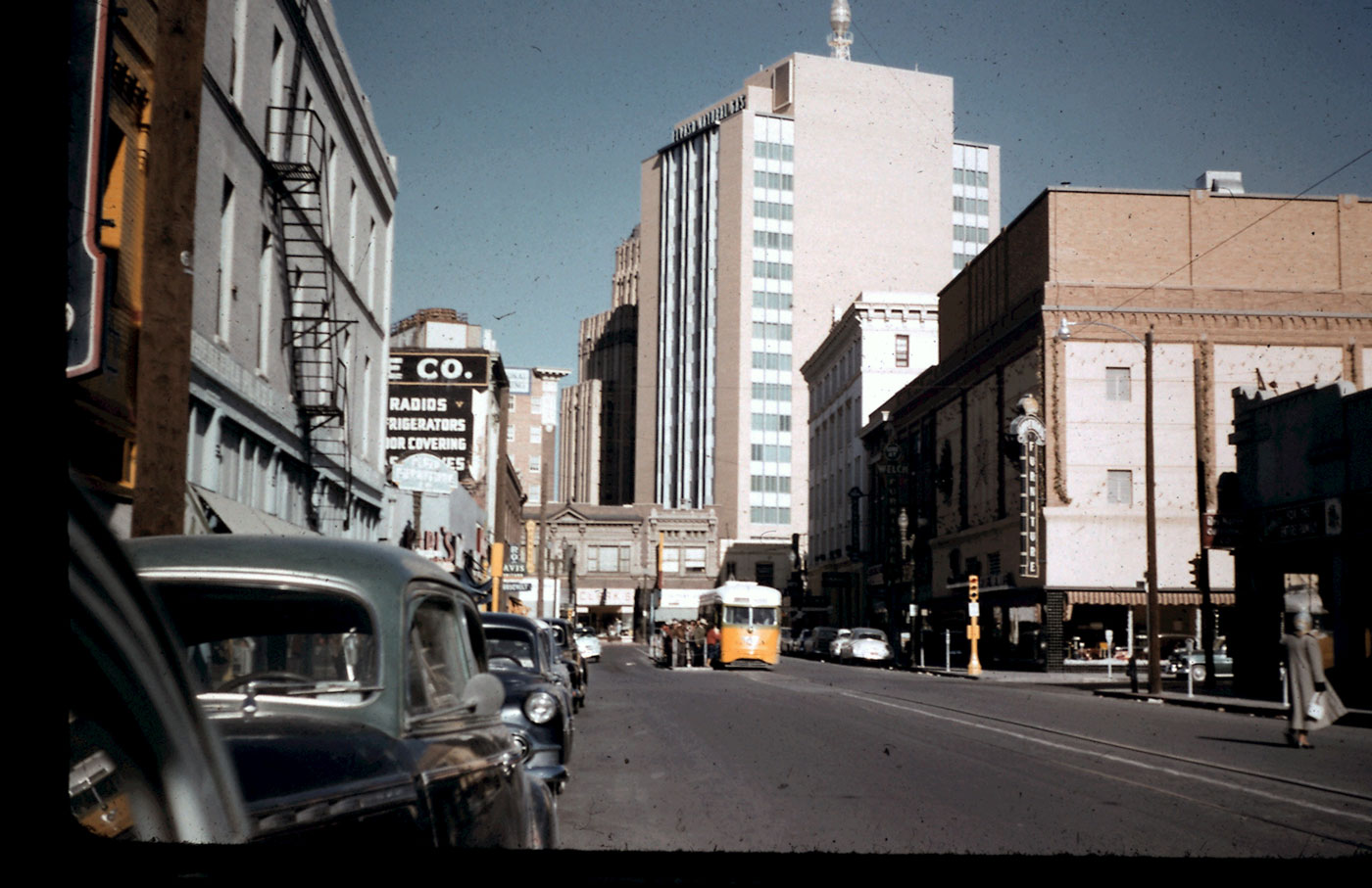 A street in El Paso, Texas - 1956. This view looks north on Stanton St just north of Overland Ave. Scanned from slides that my grandfather took.